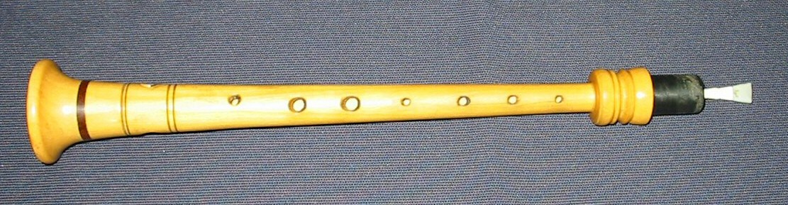 The chanter of a C tuned Baghèt